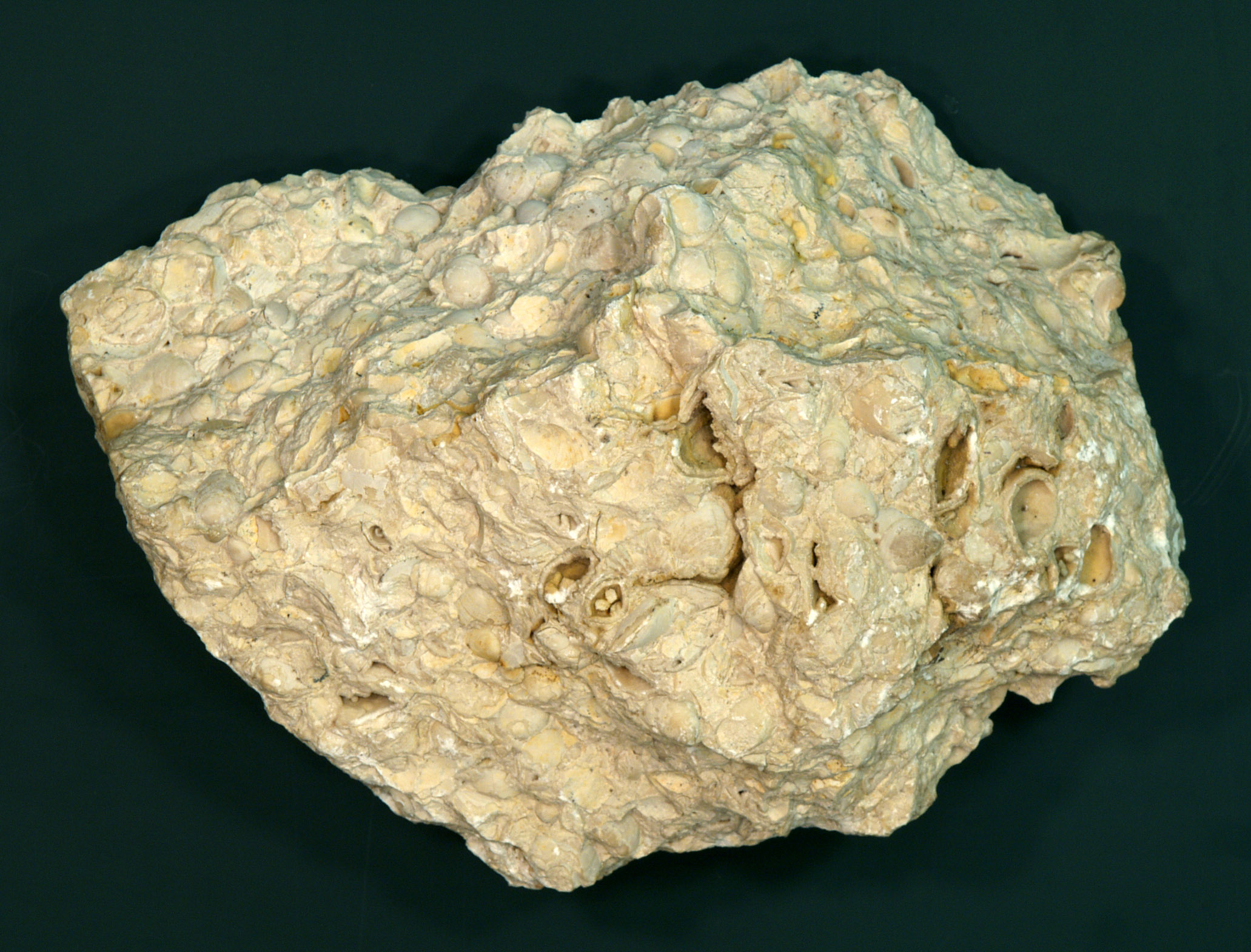 Limestone from a quarry in southern Germany (close to Regensburg) consisting mostly of Brachiopoda. In some open shells the arm frames are visible. (length 40 cm)